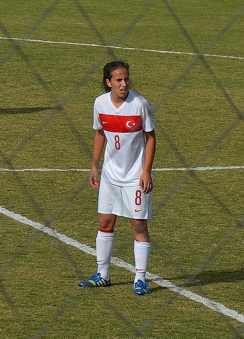 Birgül Sadıkoğlu playing for Turkey Women's U17 on October 20, 2105